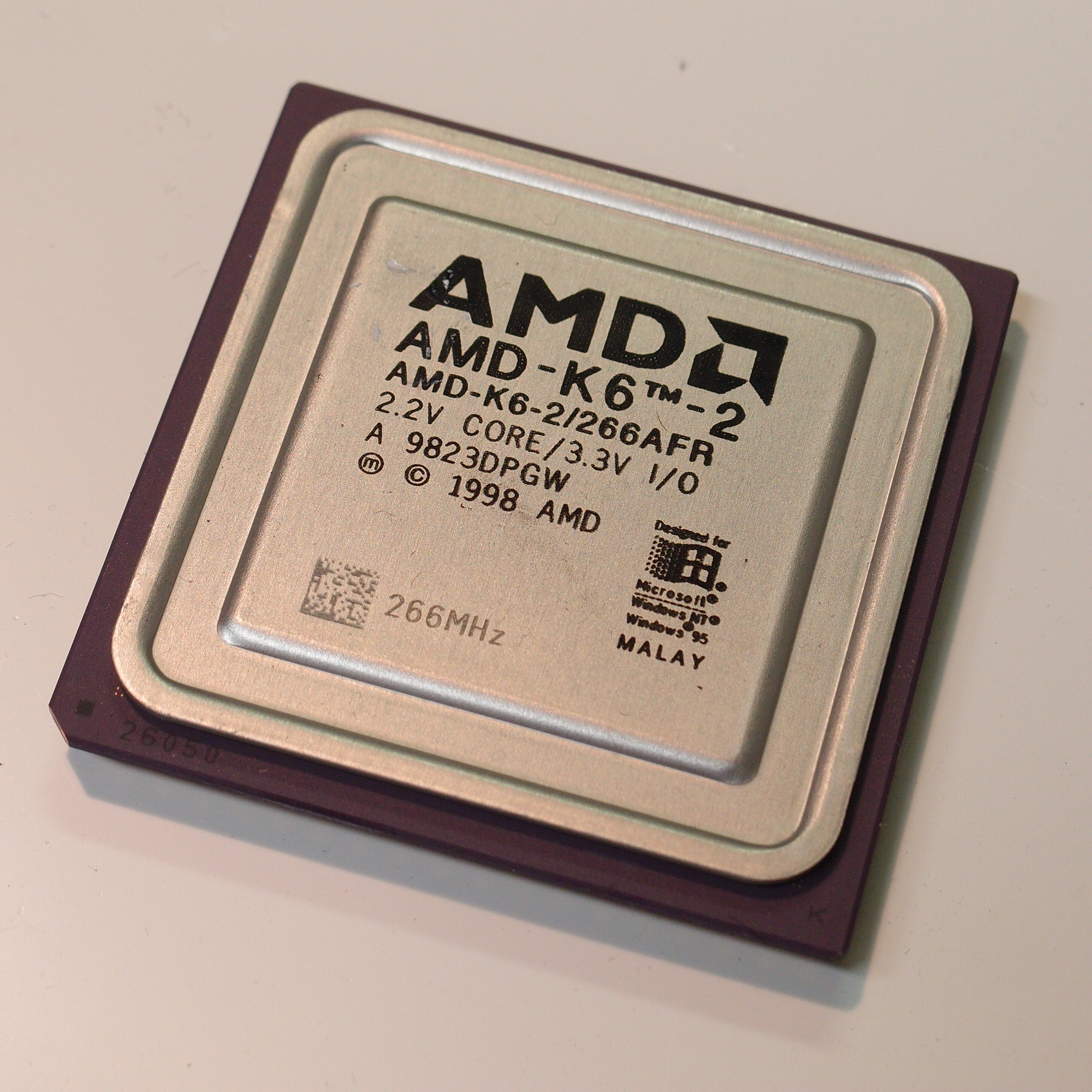 AMD-K6-2/266AFR 2.2V CORE/3.3V I/O A 9823DPGW M C 1998 AMD MALAY 266MHz